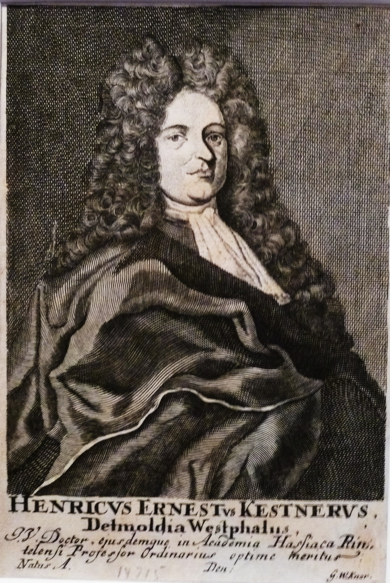 Henricus Ernestus Kestner, engraving presum. by Johann Friedrich Bause